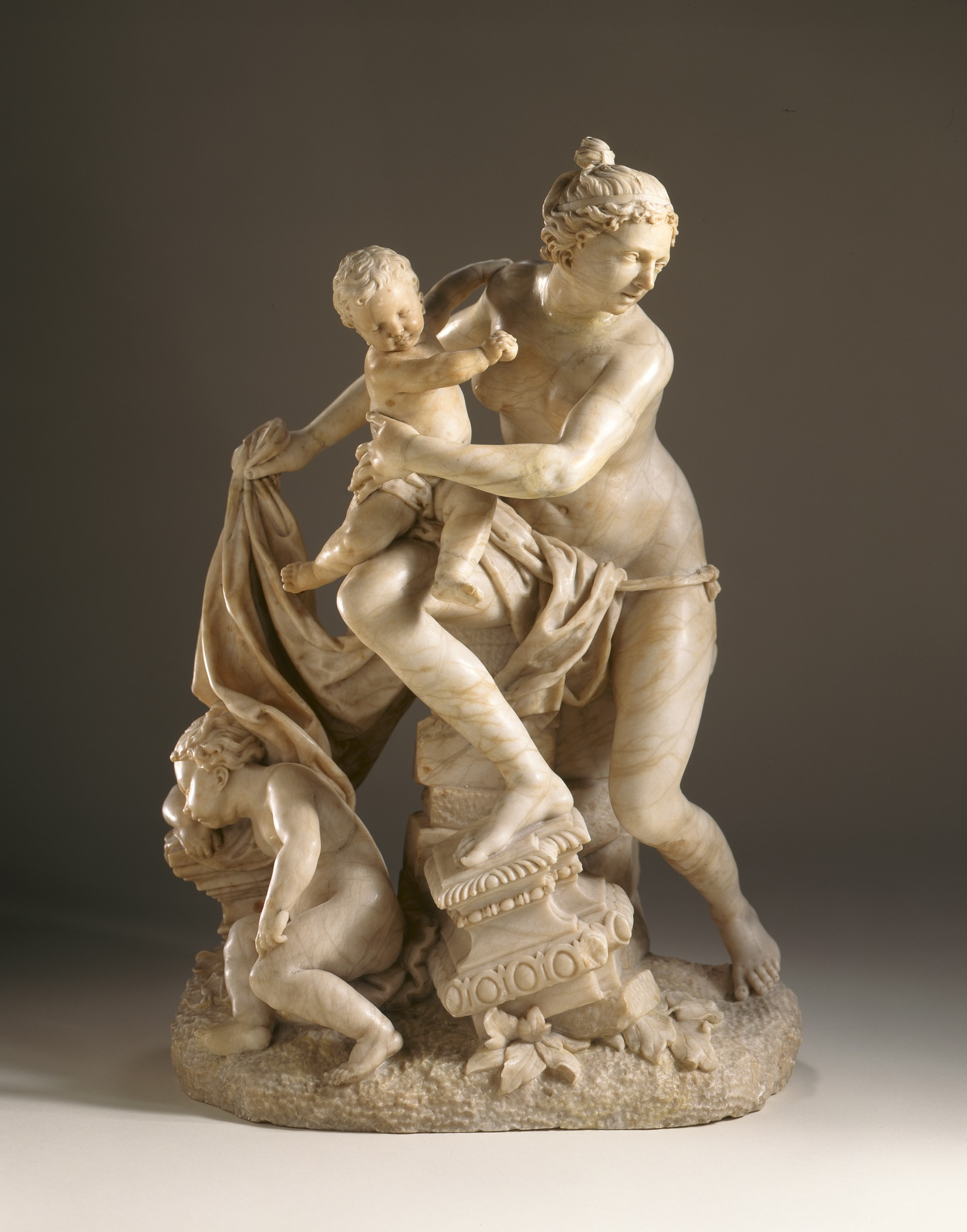 Bohemia, circa 1742 Sculpture Alabaster Given anonymously in honor of Anna Bing Arnold (M.78.86) European Sculpture